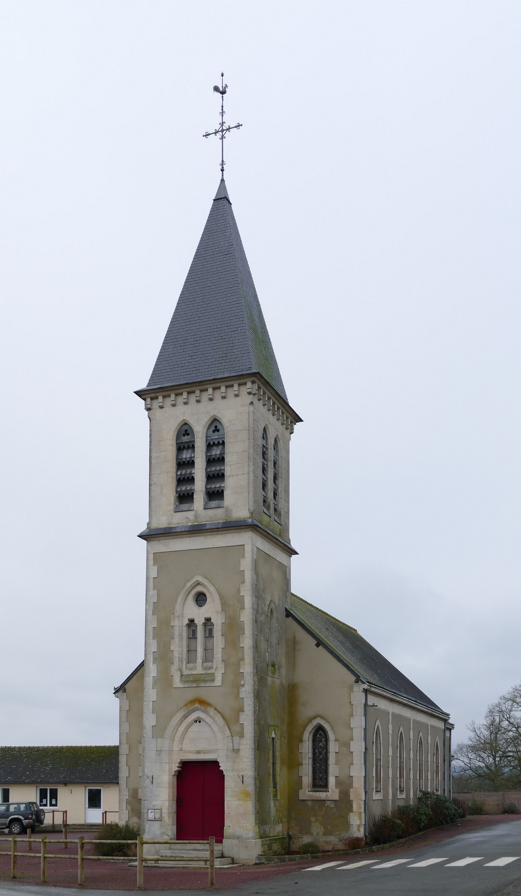 Saint-Martin's church in Ménil-Erreux (Orne, Normandie, France).